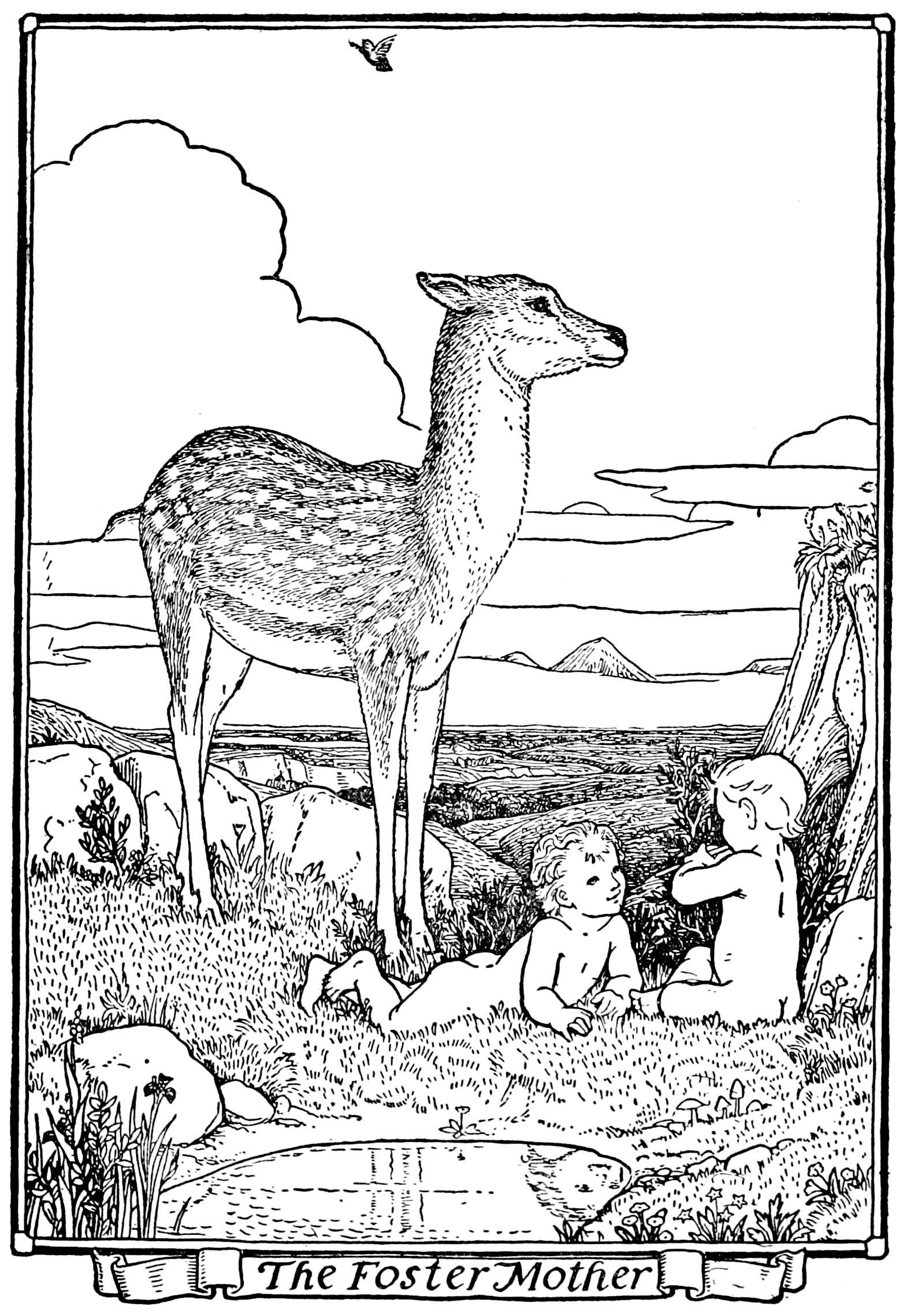 Illustration from a book of fairy tales from Europe, translated into english